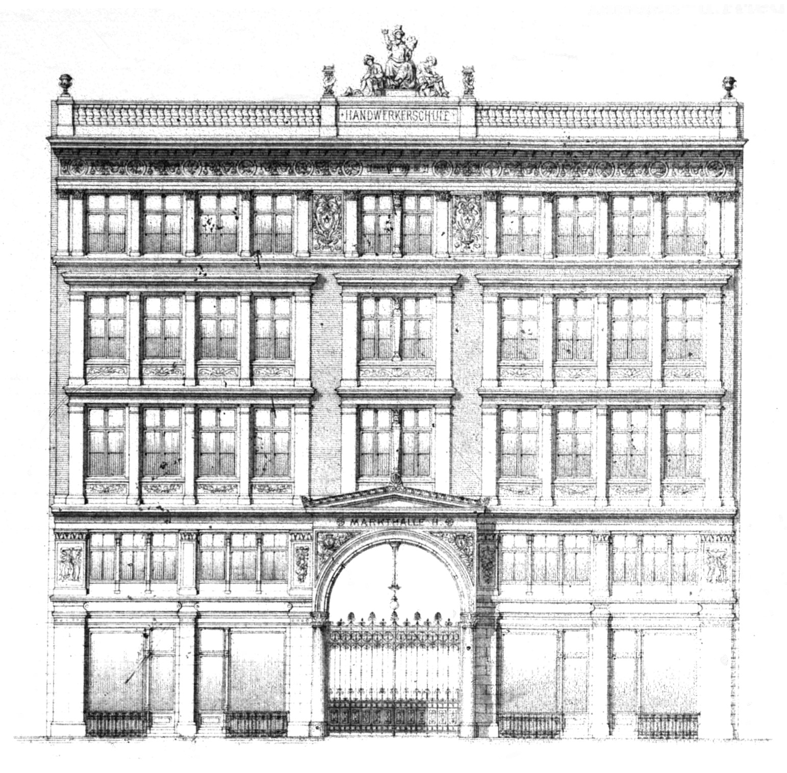 Berlin - market hall II, facade at Lindestraße